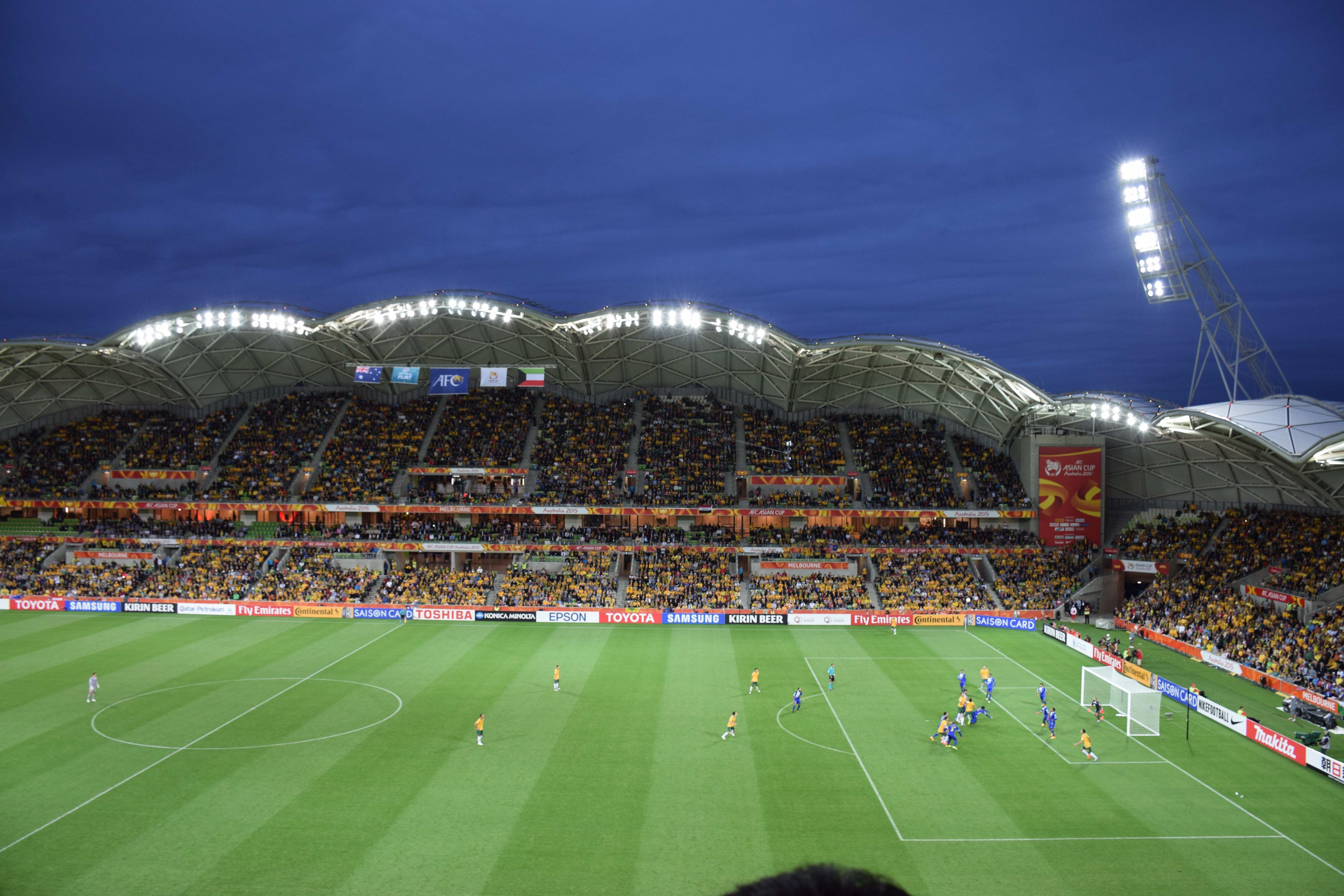 Opening game - Australia v Kuwait at Melbourne Rectangular Stadium